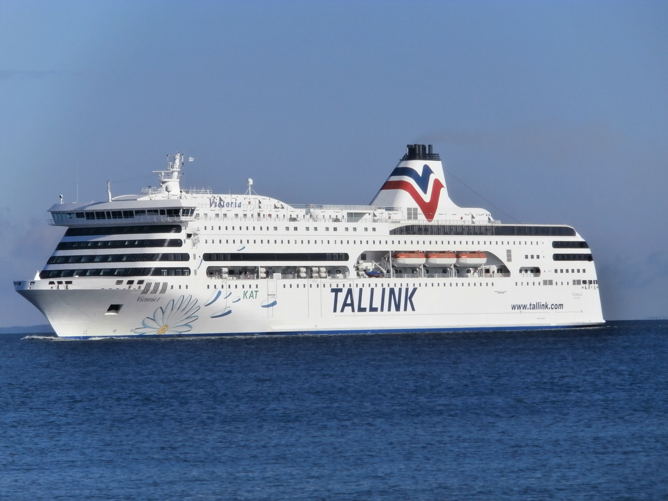 Ferry Victoria I arriving Port of Tallinn 16 August 2013